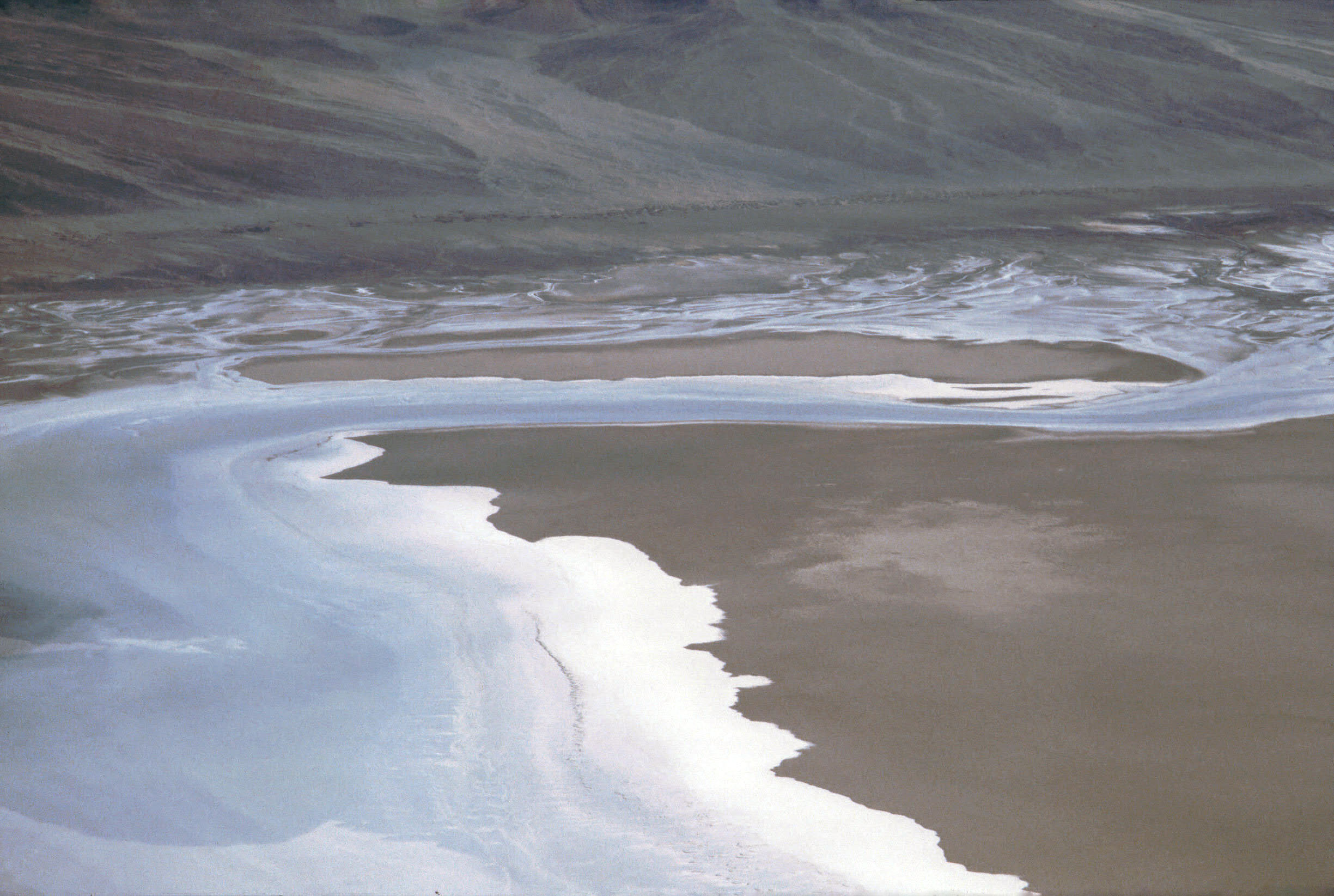 Death Valley,19820817,Dante's View,Salt shoreline closeup orizzontal